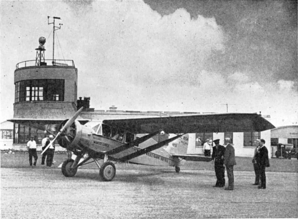 Original caption: "View of administration building Buffalo airport"